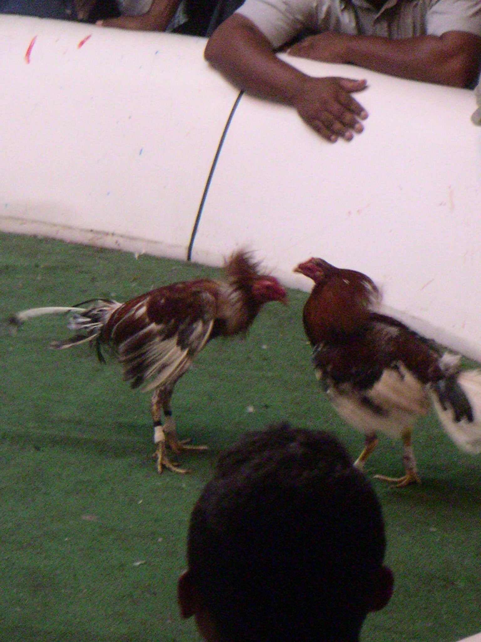 A cock fight (Spanish: pelea de gallos) in the Dominican Republic